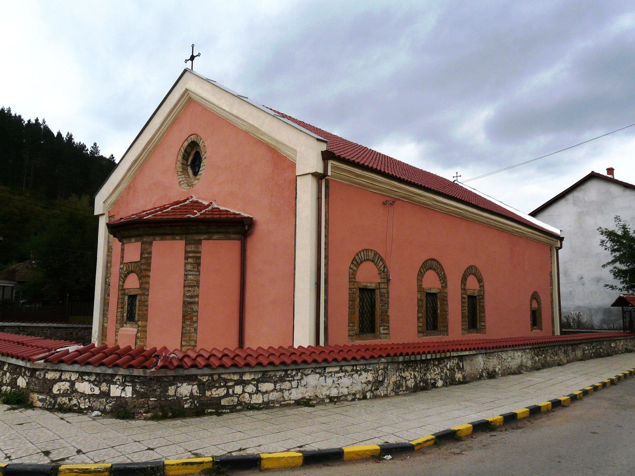 Saint Nicholas church, Tran, Bulgaria